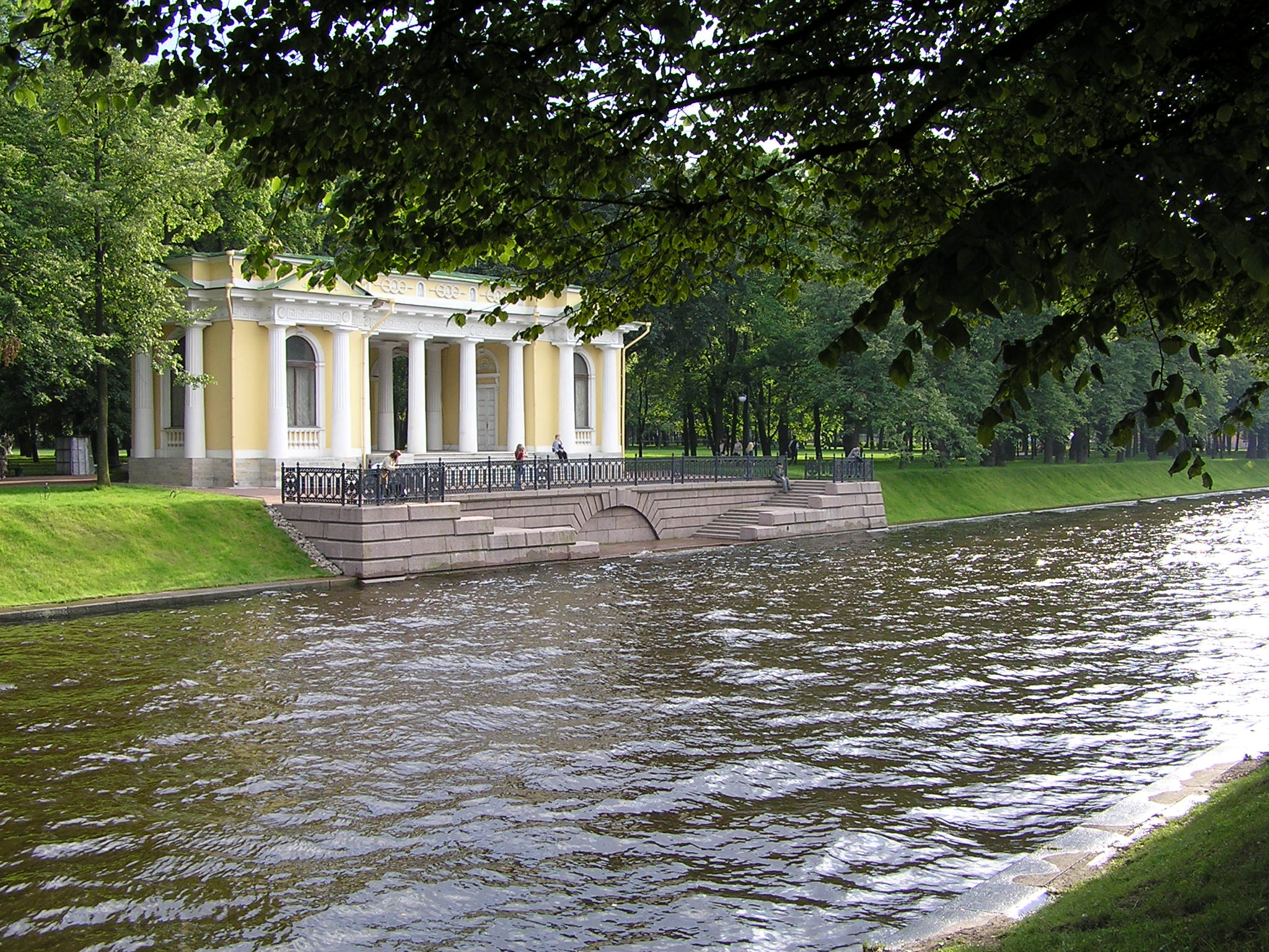 Saint Petersburg (Russia), Mikhailovsky Garden, Moika River and view on Mikhailovsky Garden (Rossi pavillion)